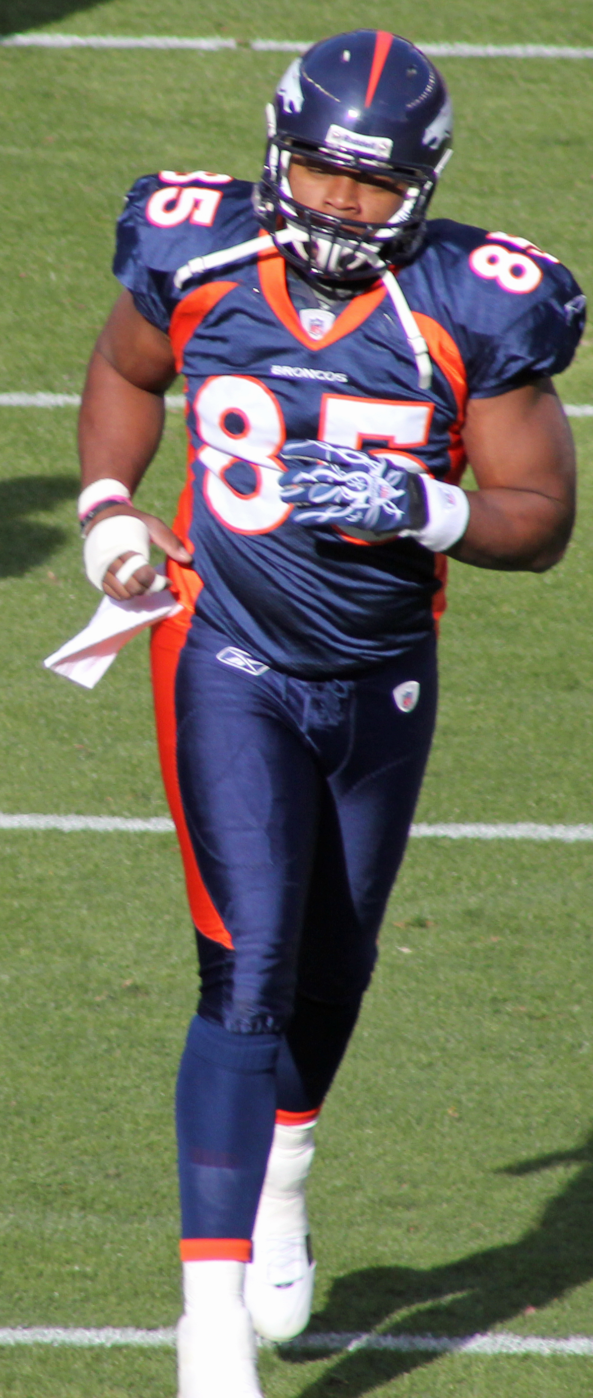 Daniel Coats, a player on the Denver Broncos American football team.